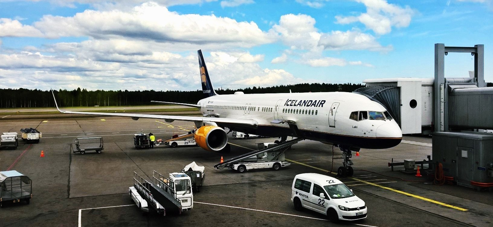 A Boeing 757-223 aircraft (TF-ISF; Laki) of Icelandair at the Helsinki-Vantaa International Airport Terminal 2